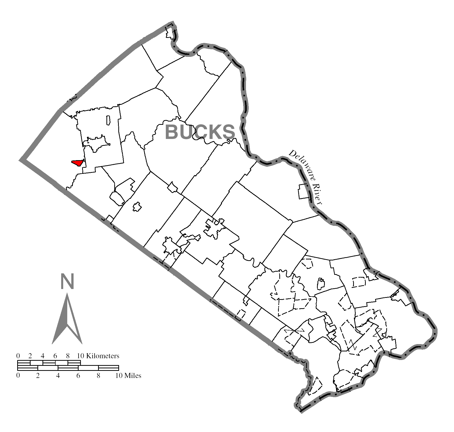 A map of Bucks County showing Trumbauersville, Pennsylvania (alternate) highlighted on the map.